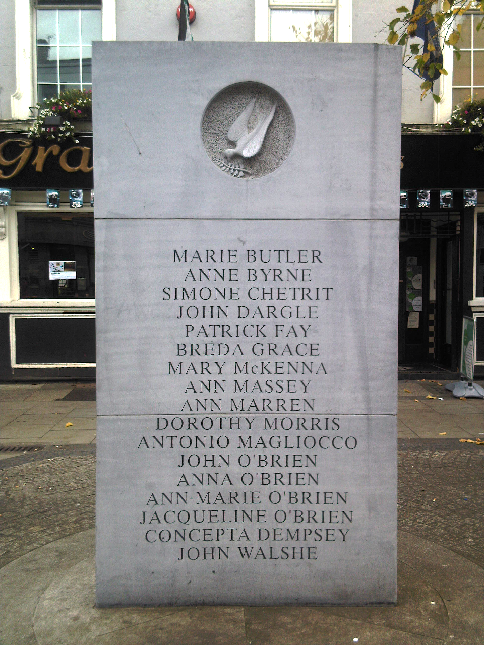 Back side of a monument to the victims of the Dublin and Monaghan bombings in Talbot Street, Dublin. The front side lists a further 16 names.